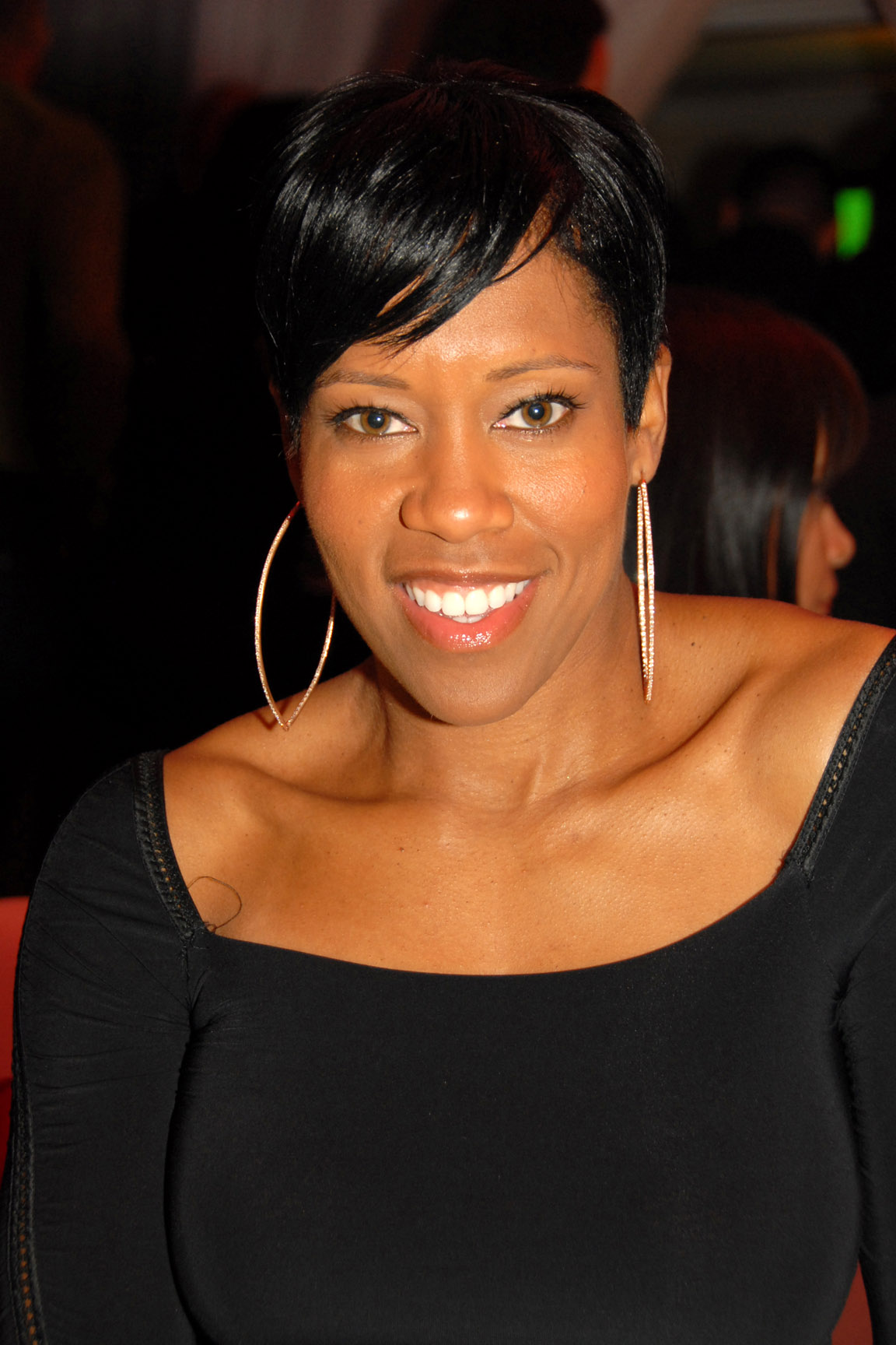 Regina King, Los Angeles, CA on May 22, 2010 - Photo by Glenn Francis of